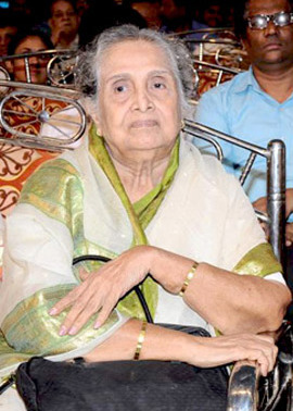 Sulochana Latkar and Reema Lagoo at Maharashtra Day celebration